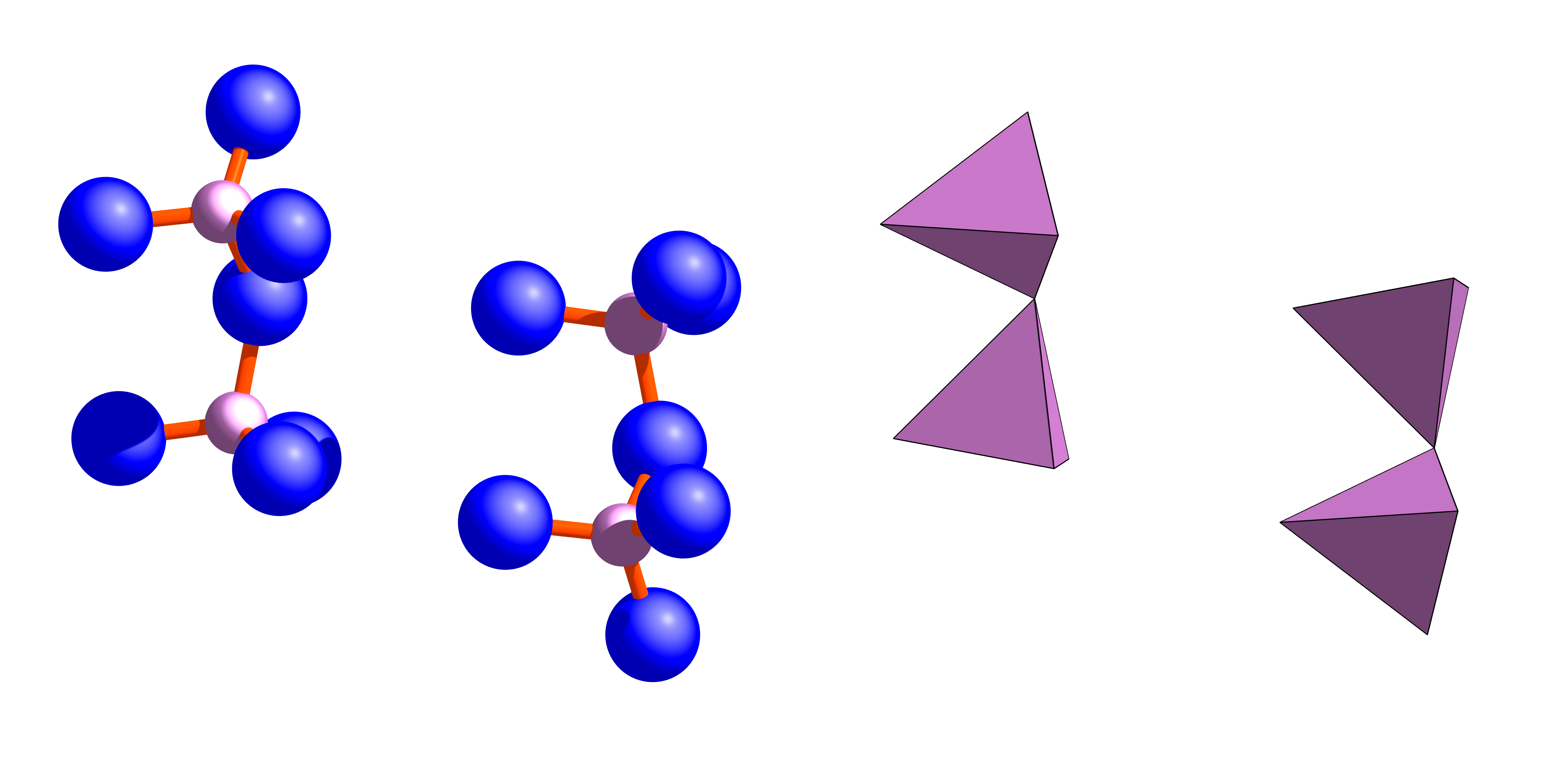 Canaphite structure: Pyrophosphate anion, viewed along a-axis Left: atoms, phosphor: violet, oxygen: blue right: coordination polyhedra Daten von: Roland C. Rouse, Donald R. Peacor, Robert L. Freed (1988): Pyrophosphate groups in the structure of canaphite, CaNa2P2O7.4H2O: The first occurrence of a condensed phosphate as a mineral, American Mineralogist 73, pp. 168-171 Image calculation: Larry W. Finger, Martin Kroeker, and Brian H. Toby, DRAWxtl, an open-source computer program to produce crystal-structure drawings, J. Applied Crystallography V40, pp. 188-192, 2007 Rendering: POVRAY